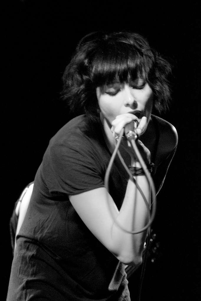 Tying Tiffany, italian musician - Live at the Viper Club, Florence, Italy.